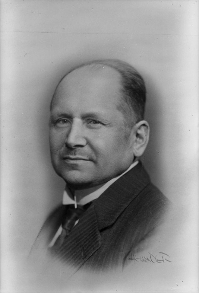 Photograph of the Finnish economist Leo Harmaja (1880–1949).